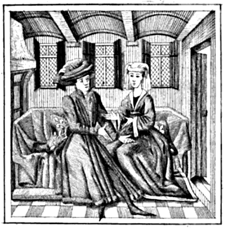 Miniature of the "Ménagier de Paris", 15th century.